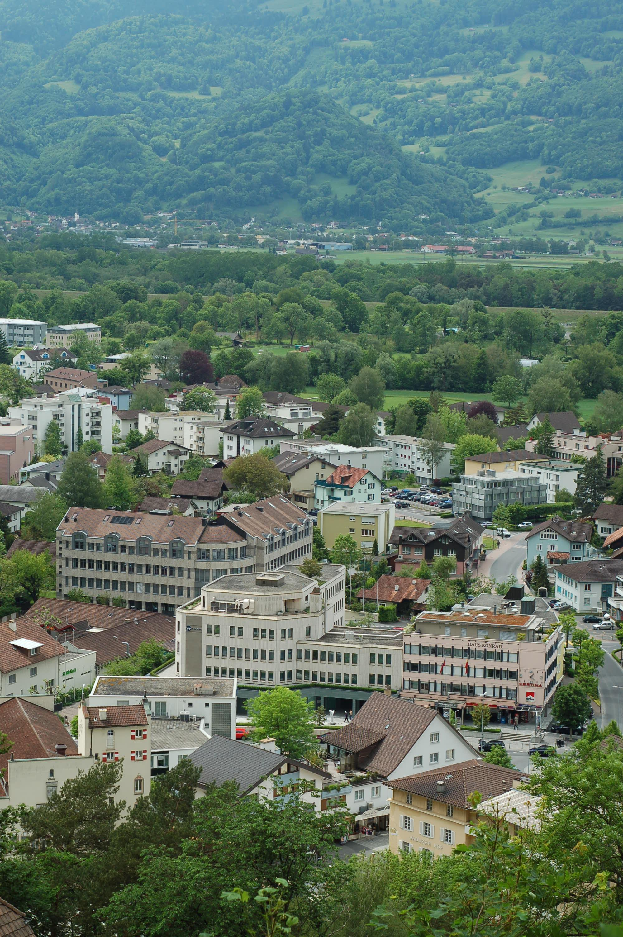 Vaduz, the capital of Liechtenstein View from castle hill on city centre